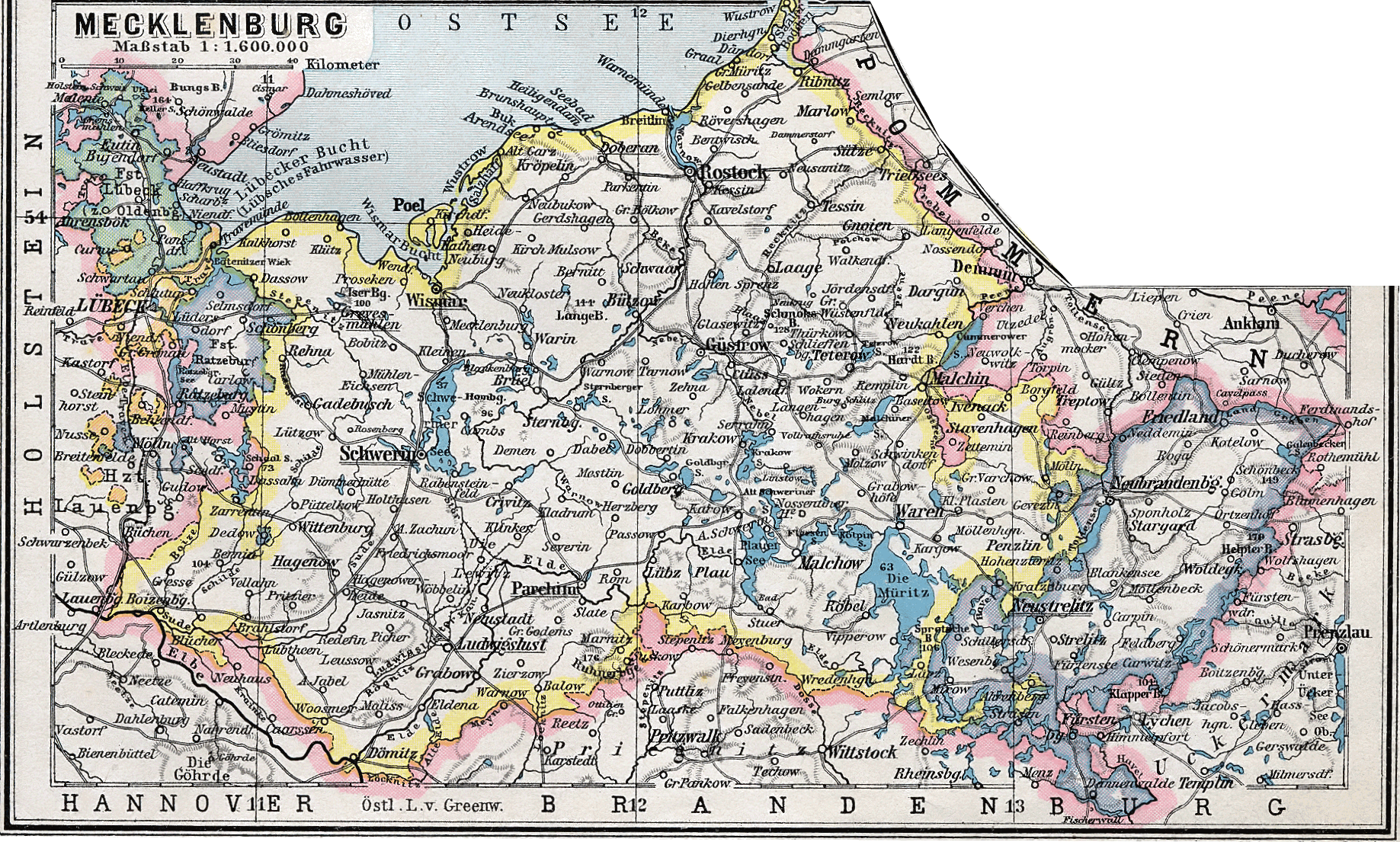 Historical map of Mecklenburg